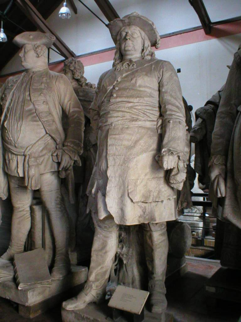 Statulas at the Berlin Lapidarium. Statue of Friedrich Wilhelm I of Brandenburg in the middle